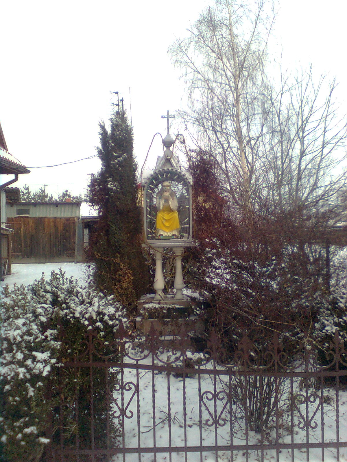 Wayside shrine of Our Lady of La Salette in Podegrodzie (Lesser Poland Voivodeship)